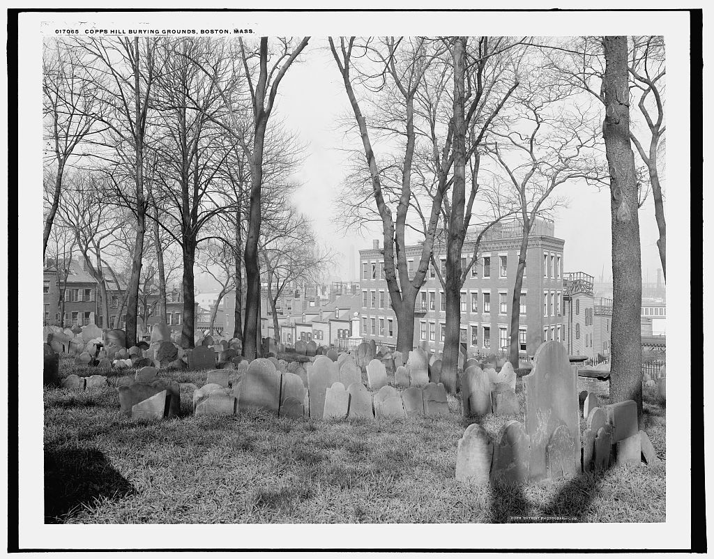 Photograph from Detroit Publishing Company of Copp's Hill Burying Grounds, Boston, Massachusetts. Print from glass negative. The Library of Congress, Washington, D. C.